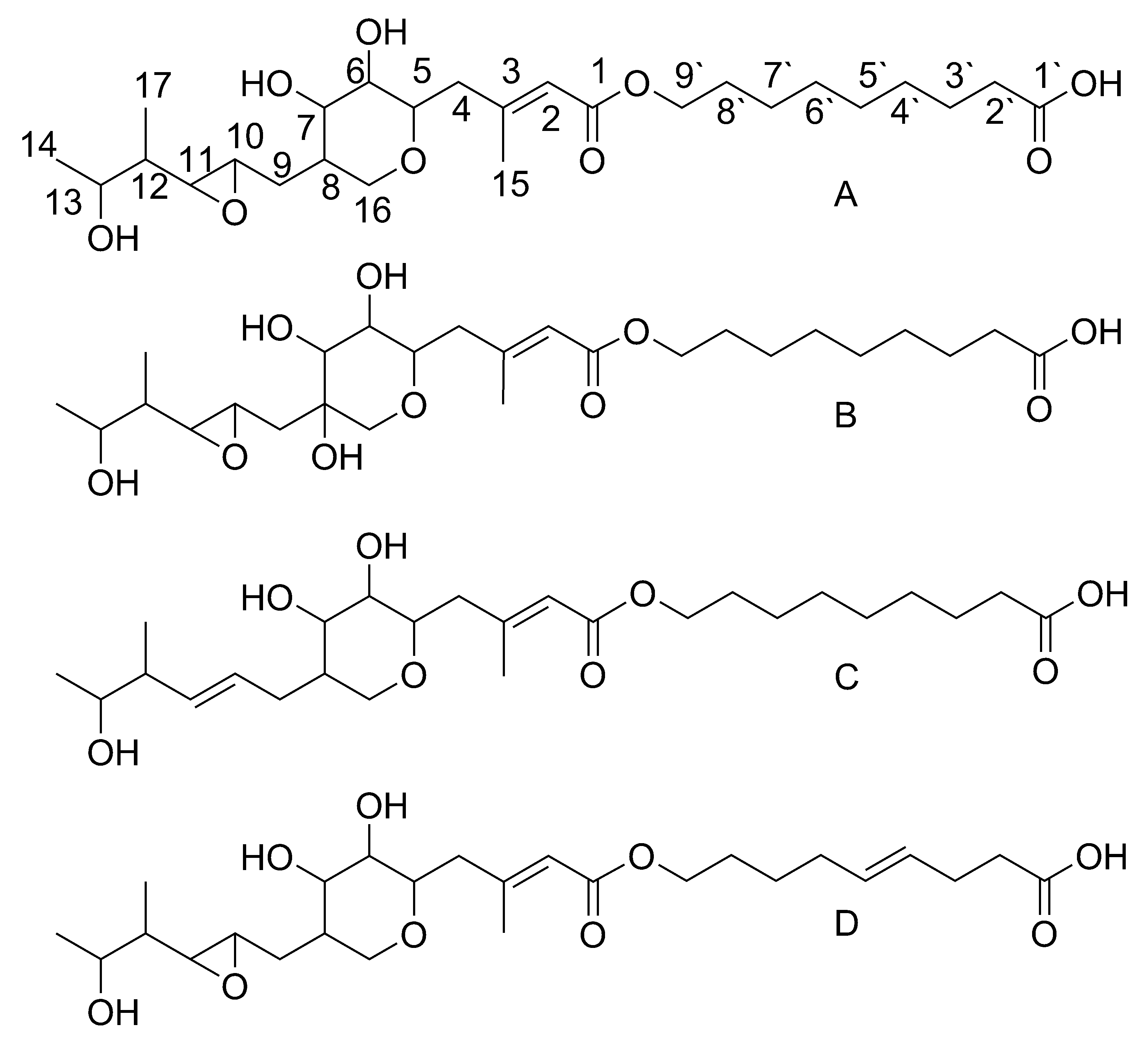 AK232,PD Self